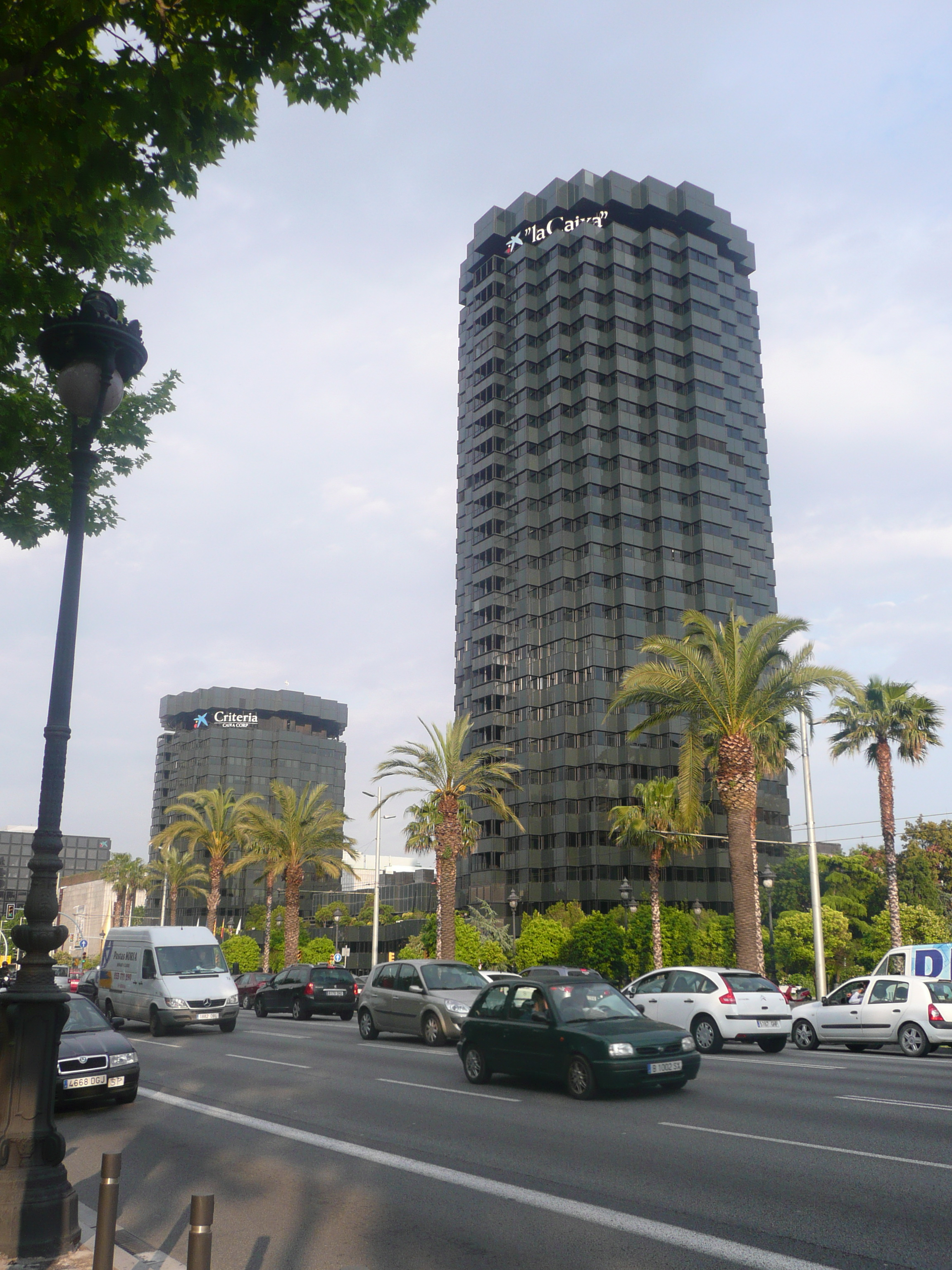 Avinguda Diagonal in Barcelona